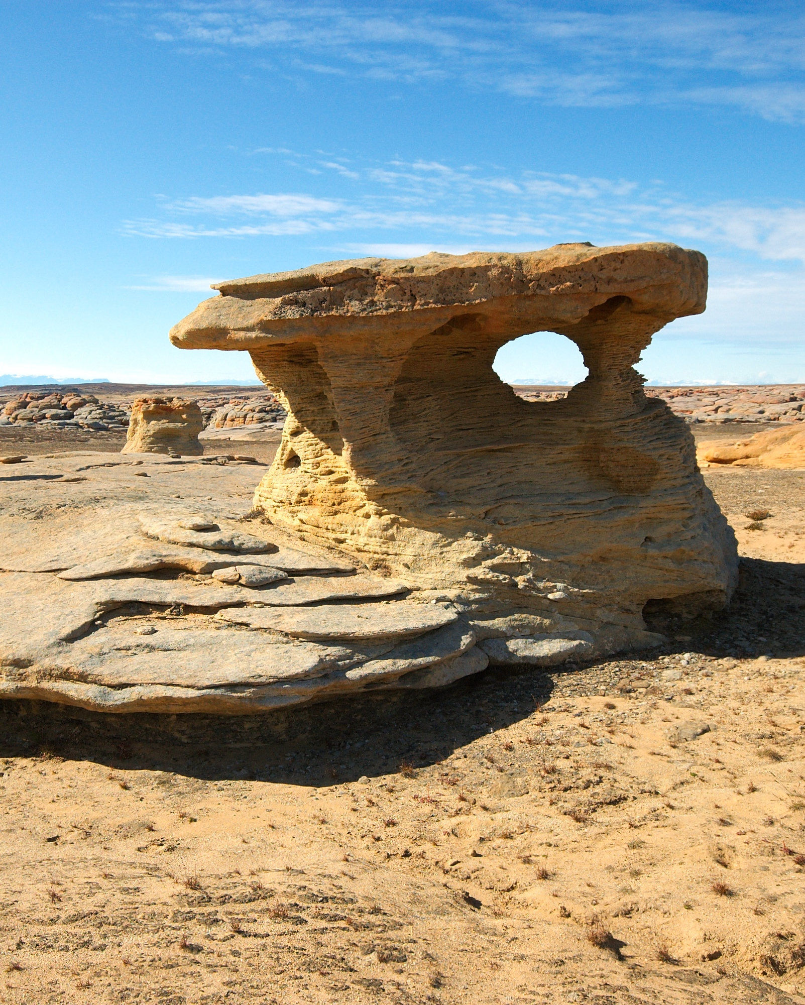 Wind-weathered sandstone formation of jurassic age, Jameson Land, East Greenland